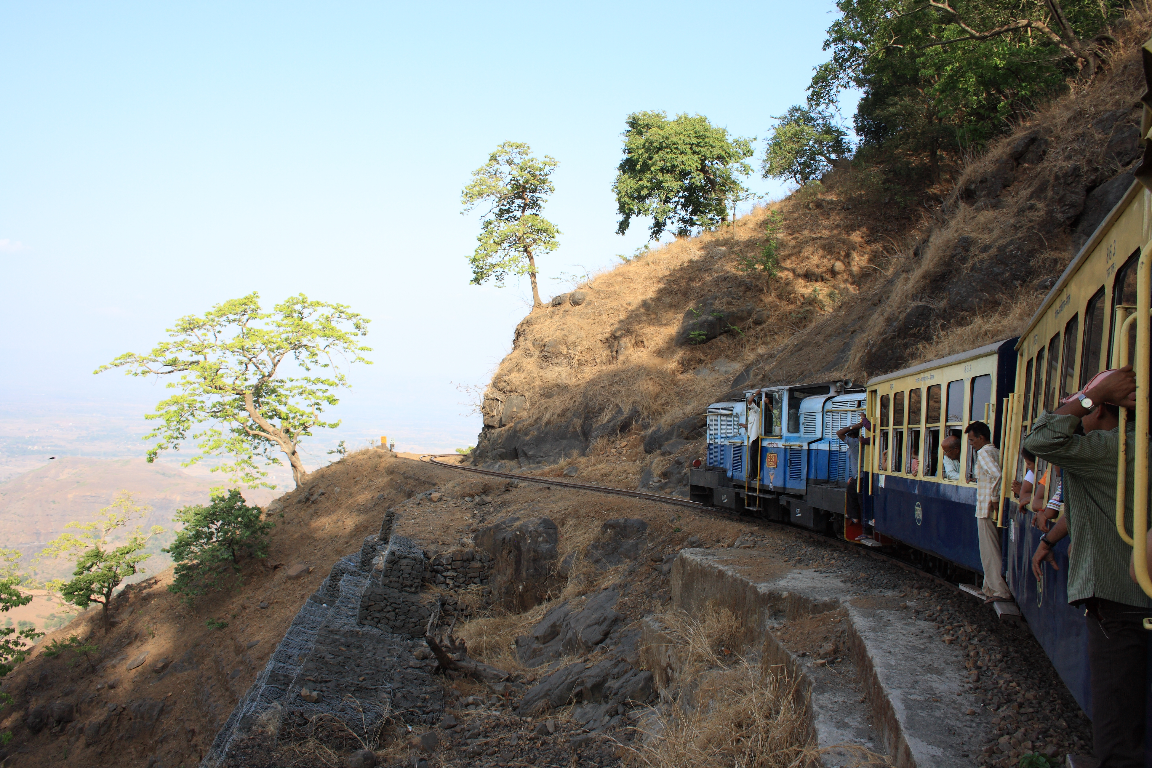 The train to Neral is rolling close to the edge.